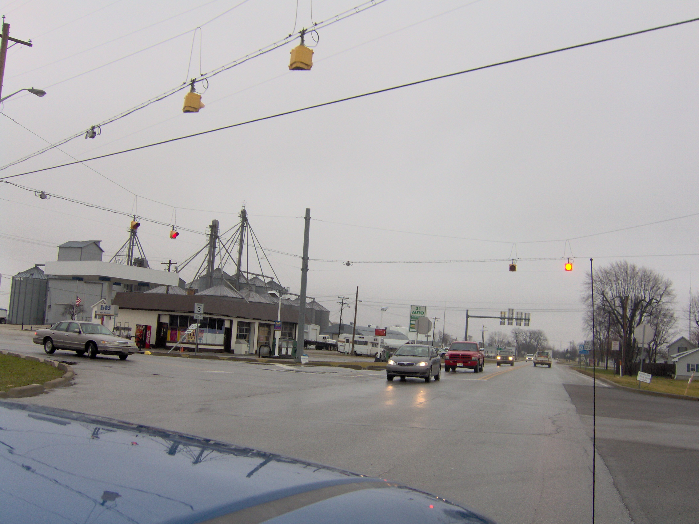 View of the center of Markle, Indiana at the intersection of US 224 and State Road 3.